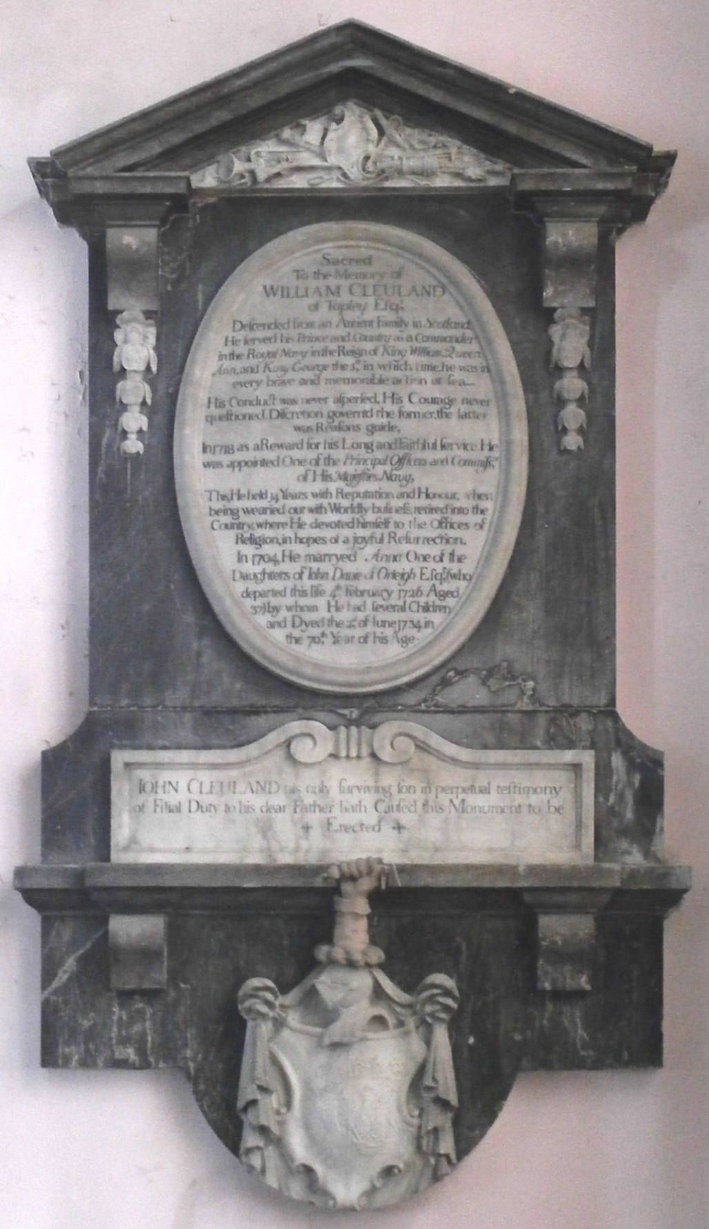 Mural monument to William Clevland (1664-1734) of Tapeley in the parish of Westleigh, North Devon. Westleigh Church, east end of north aisle. Inscribed thus: "Sacred to the memory of William Cleuland of Tapley Esqr descended from an antient family in Scotland. He served his prince and country as a commander in the Royal Navy in the reign of King William, Queen Anne and King George the 1st in which time he was in every brave and memorable action at sea. His conduct was never aspersed his courage never questioned. Discretion govern'd the former, the latter was Reason's guide. In 1718 as a reward for his long and faithful service he was appointed one of the principal officers and commiss.rs of His Majesties Navy. This he held 14 years with reputation and honour when being wearied out with worldly business retired into the country where he devoted himself to the offices of religion in hopes of a joyful resurrection. In 1704 he marryed Anna one of the daughters of John Davie of Orleigh Esqr (who departed this life 4th February 1726 aged 37) by whom he had several children and dyed the 2d of June 1734 in the 70th year of his age. John Cleuland his only surviving son in perpetual testimony of filial duty to his dear father hath caused this monument to be erected". Below is a relief sculpted white marble escutcheon showing the arms of Clevland impaling Davie: A ship with two masts or the sails trussed up and twisted to the masts argent adorned with flags charged with the cross of England on a chief of the second three cinquefoils pierced gules. Above is the crest of Clevland: A dexter cubit arm grasping in the hand a sword hilted and pommelled or point to sinister.